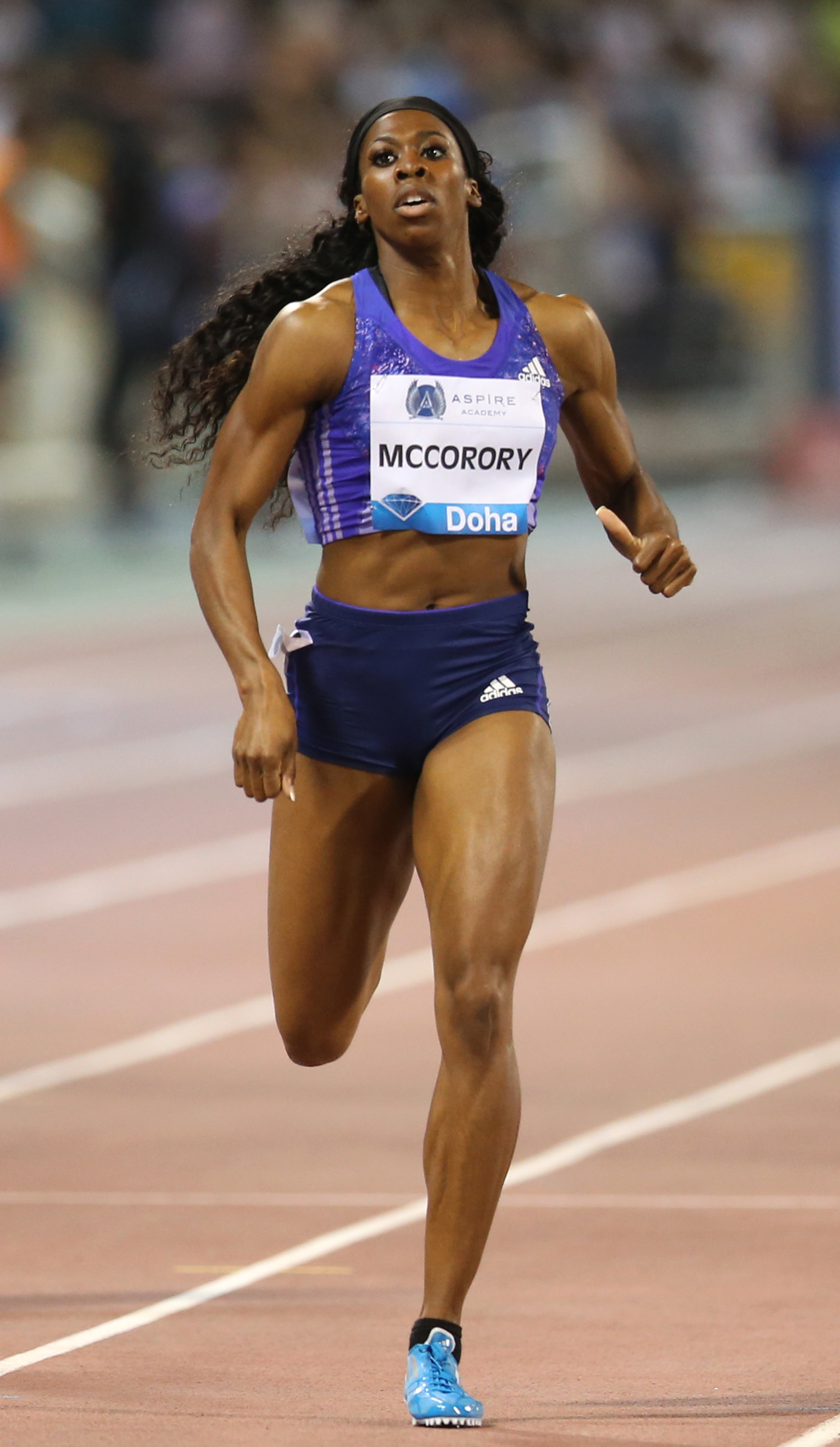 American sprinter Francena McCorory en route to winning the women's 400M title at the Doha Diamond League.